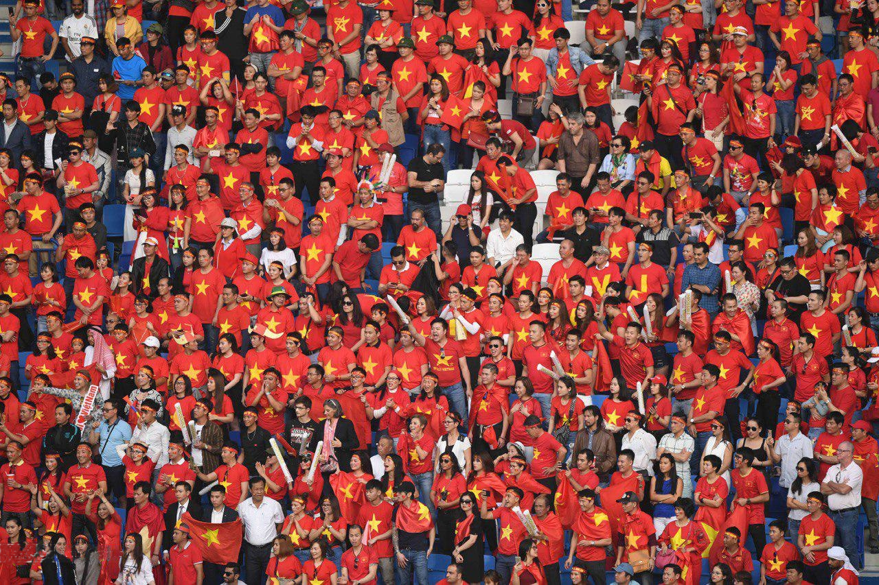 Vietnam vs. Japan, Quarter-finals 2019 AFC Asian Cup